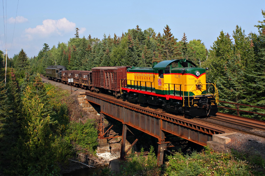 Duluth, South Shore & Atlantic 101, a 1945 Alco product, led one of two photo charters for Lake Superior Railroad Museum's annual railfan weekend. The other photo train had GN SD45 400 and looked equally as sharp. Despite a gloomy forecast, we had mostly sunny skies all day. Thanks to Steve Glischinski and the gang at LSRM for putting together a great show!